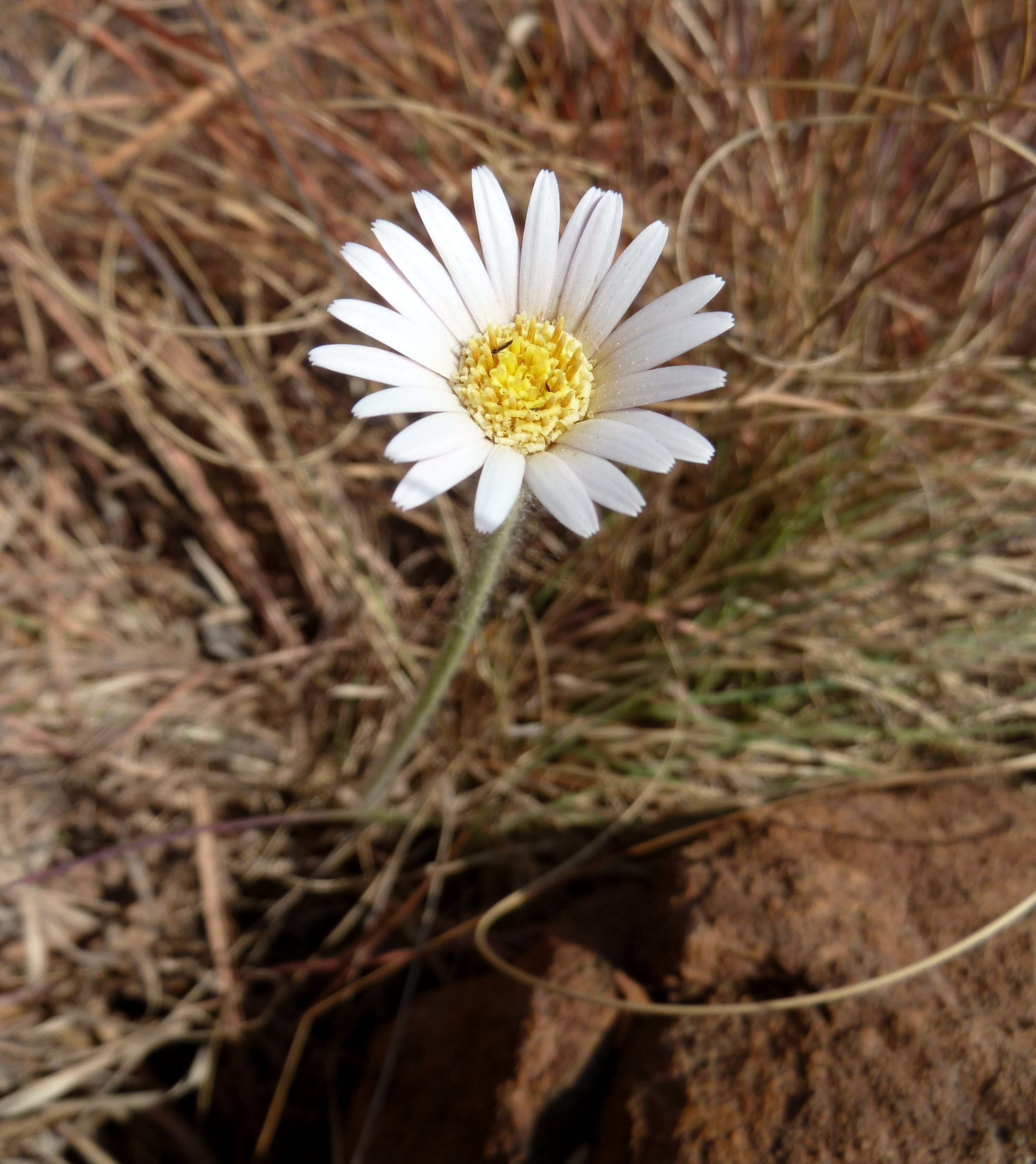 Gerbera viridifolia in the Waterberg, South Africa. This variable species has a vast distribution in the uplands of eastern Africa, including Cameroon.